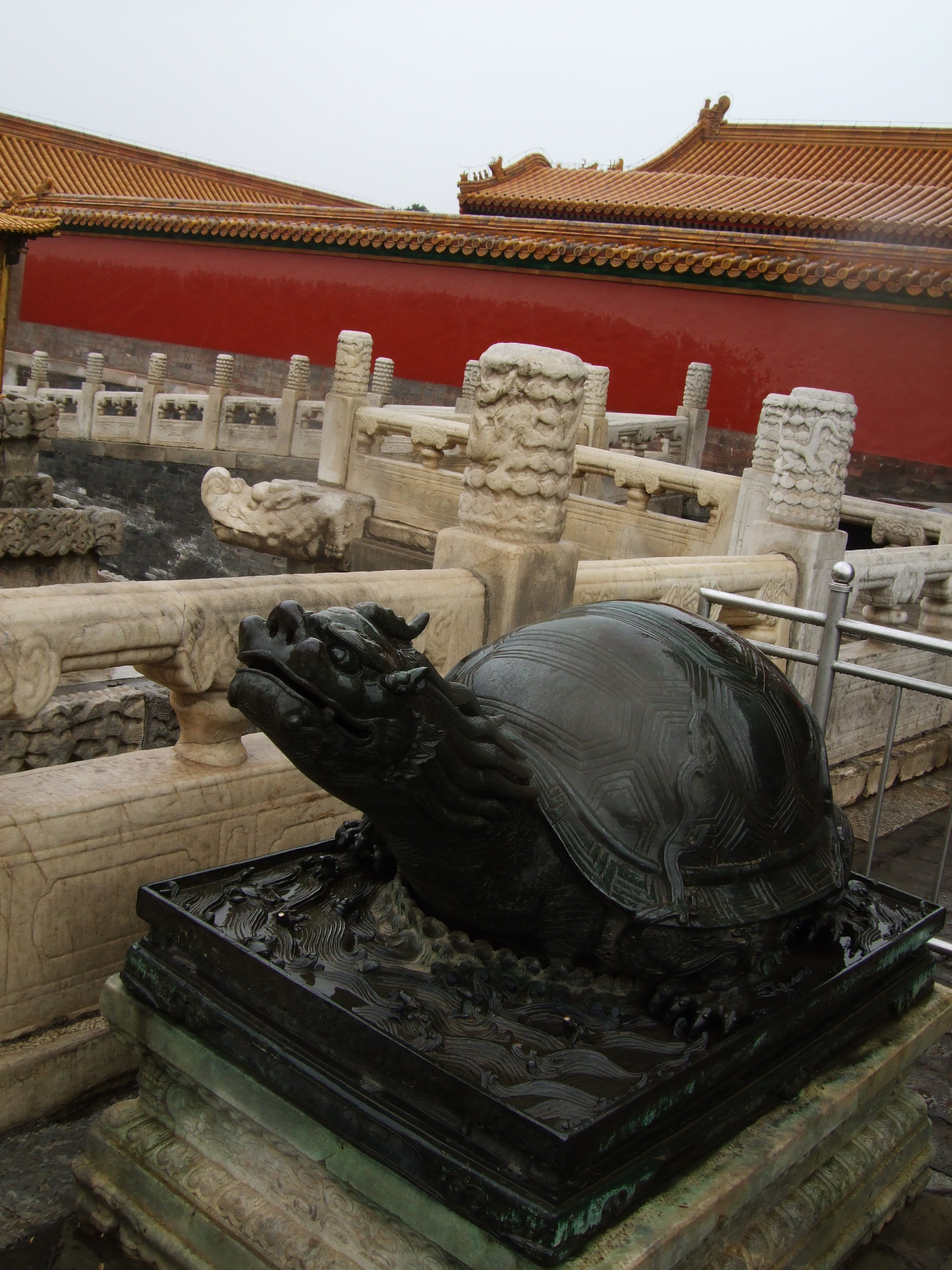 Black Tortoise statue in the Palace Museum